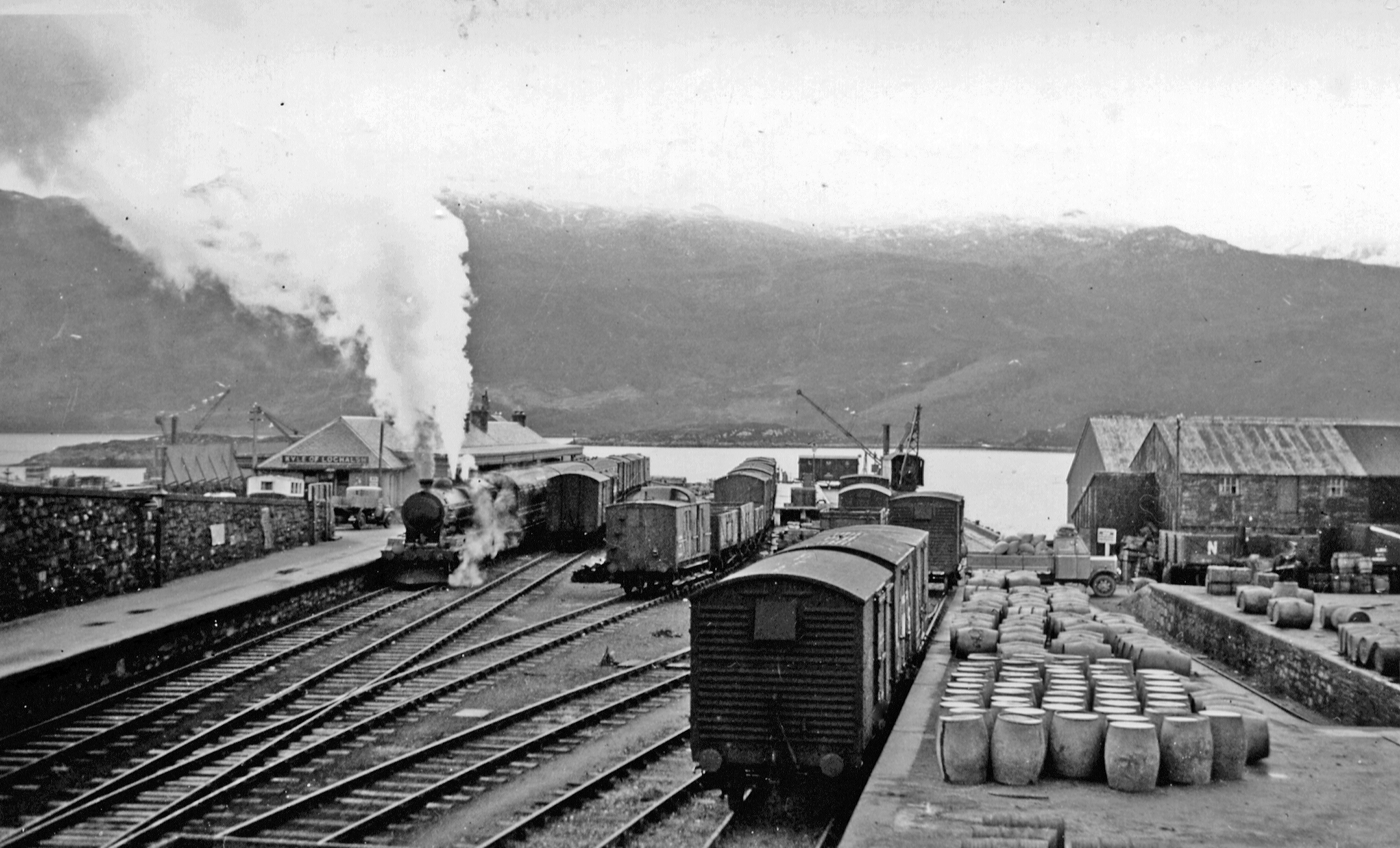 Kyle of Lochalsh station, 1939View SE to the buffers and across the Kyle to Skye, the ferry to Kyleakin being off scene to the right. A train is leaving for Dingwall and Inverness, with an ex-Highland 4-6-0.